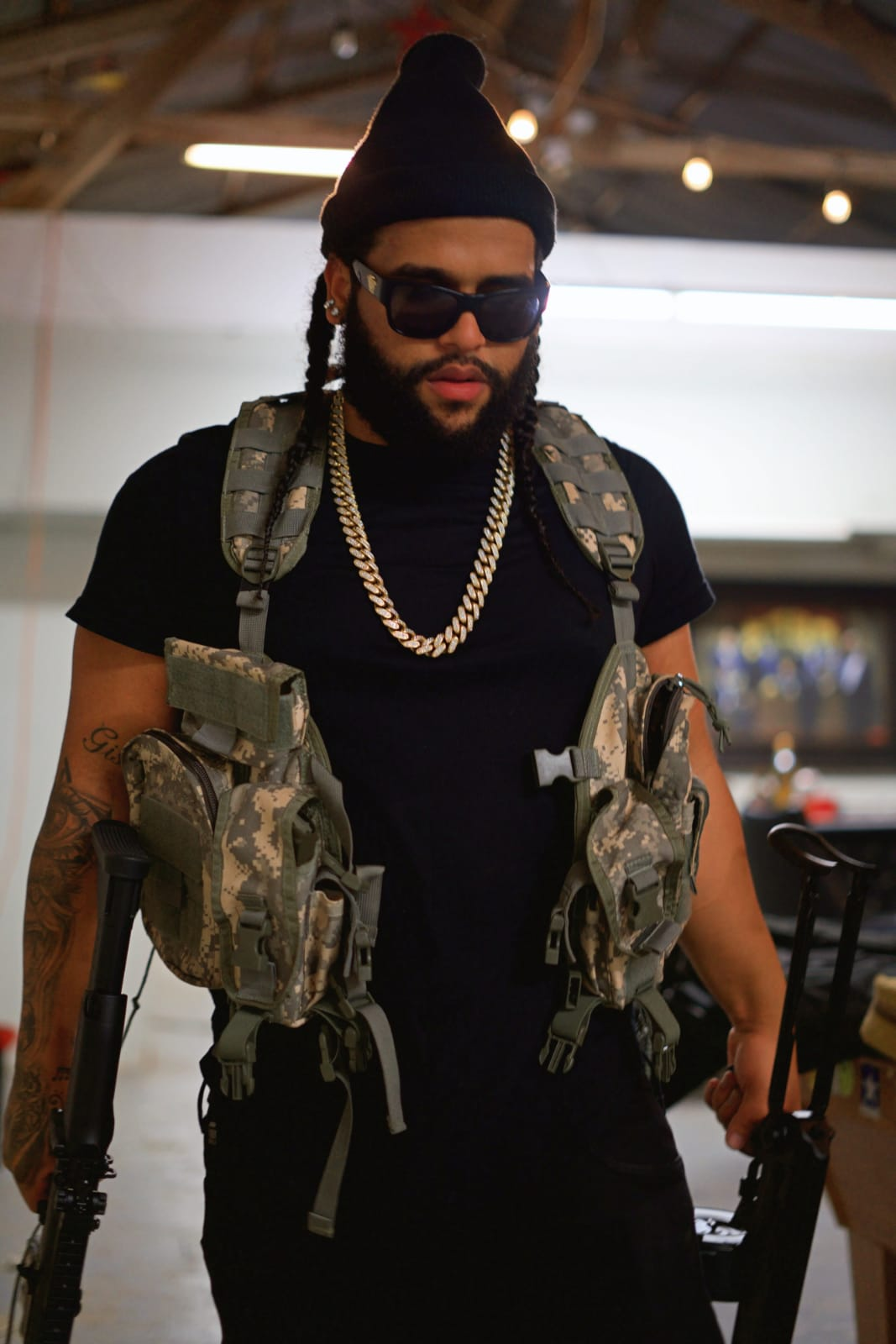 photo of Kiubbah Malon